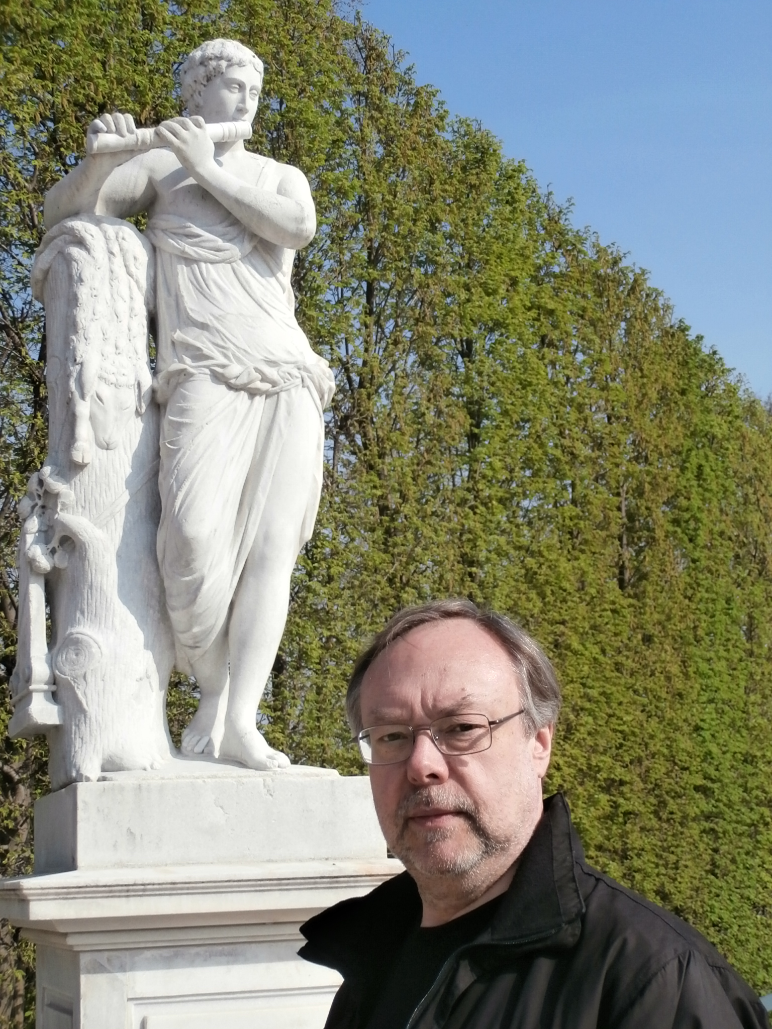 Jüri Hargel in the park of Schönbrunn Palace in Vienna, April 2013.